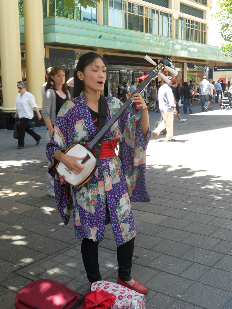 A street performer playing shamisen.